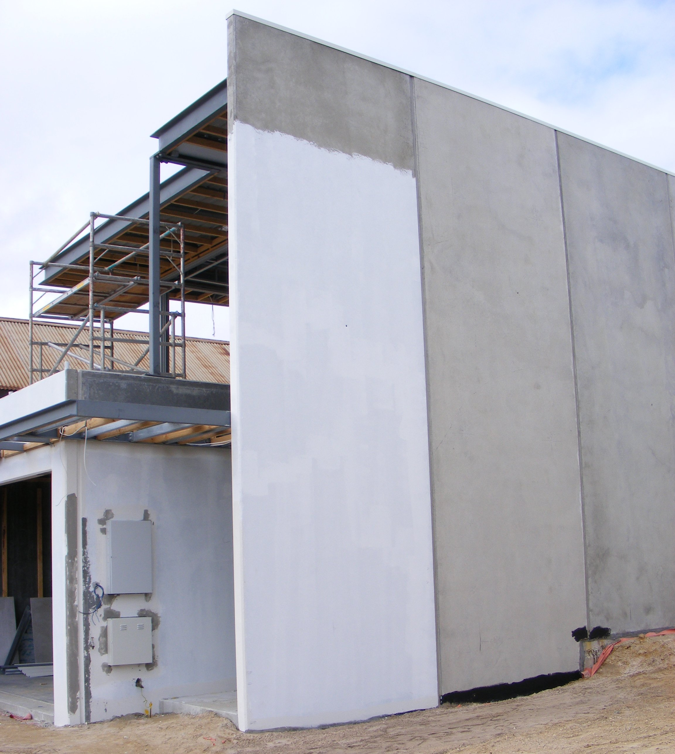 Precast concrete walled house in construction. Henley Beach, South Australia